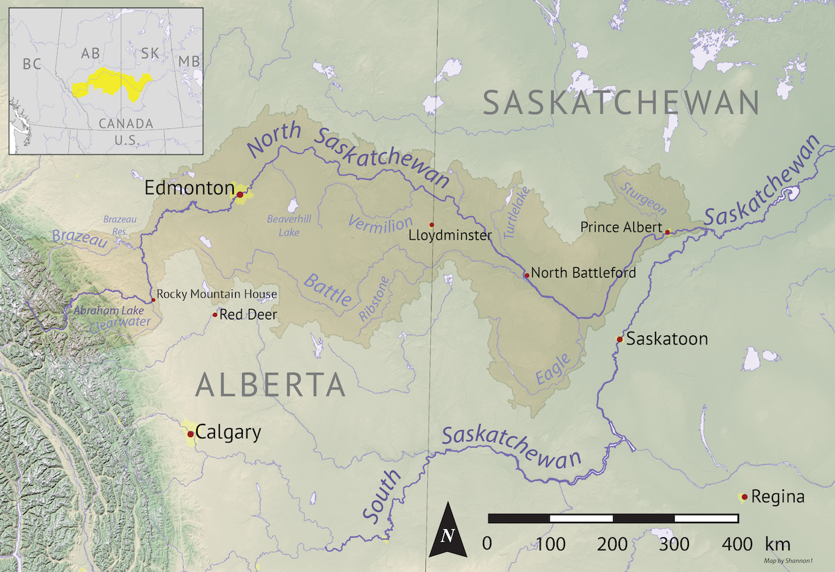 Map of the North Saskatchewan drainage basin in Alberta and Saskatchewan. Data derived from NASA SRTM, Statistics Canada, US Geological Survey, Natural Earth, all public domain.